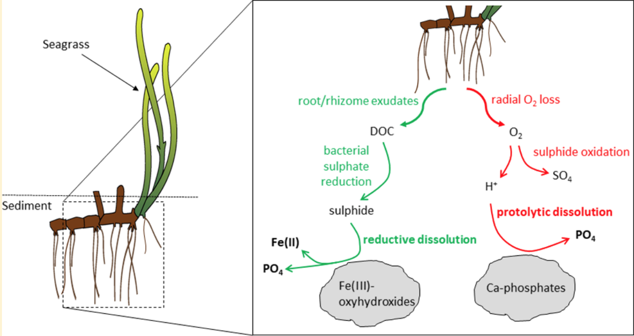 How tropical seagrasses mobilise phosphorus and iron Tropical seagrasses are nutrient-limited owing to the strong phosphorus fixation capacity of carbonate-rich sediments, yet they form densely vegetated, multispecies meadows in oligotrophic tropical waters. Using a novel combination of high-resolution, two-dimensional chemical imaging of O2, pH, iron, sulfide, calcium, and phosphorus, we found that tropical seagrasses are able to mobilize the essential nutrients iron and phosphorus in their rhizosphere via multiple biogeochemical pathways. We show that tropical seagrasses mobilize phosphorus and iron within their rhizosphere via plant-induced local acidification, leading to dissolution of carbonates and release of phosphate, and via local stimulation of microbial sulfide production, causing reduction of insoluble Fe(III) oxyhydroxides to dissolved Fe(II) with concomitant phosphate release into the rhizosphere porewater. These nutrient mobilization mechanisms have a direct link to seagrass-derived radial O2 loss and secretion of dissolved organic carbon from the below-ground tissue into the rhizosphere. Our demonstration of seagrass-derived rhizospheric phosphorus and iron mobilization explains why seagrasses are widely distributed in oligotrophic tropical waters